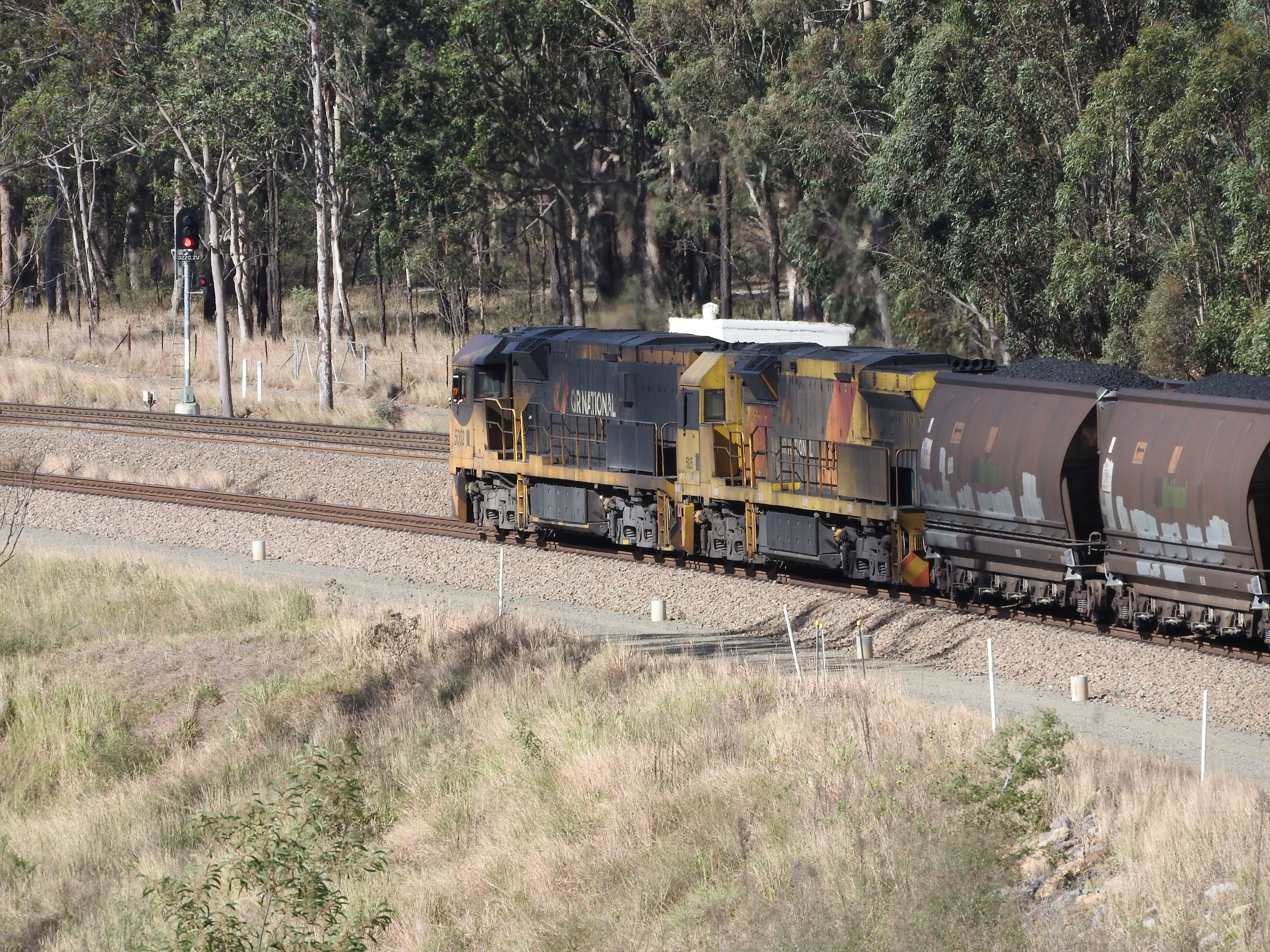 5002 leads 5025 past Pothana Lane, 2016